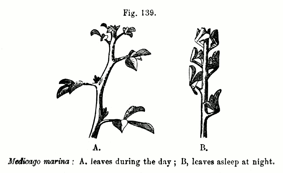 Sleep movements of Medicago marina